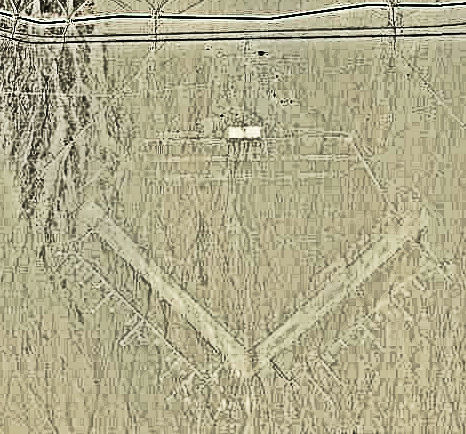 USGS digital orthophoto of Rice Army Airfield in California (edge enhanced image)